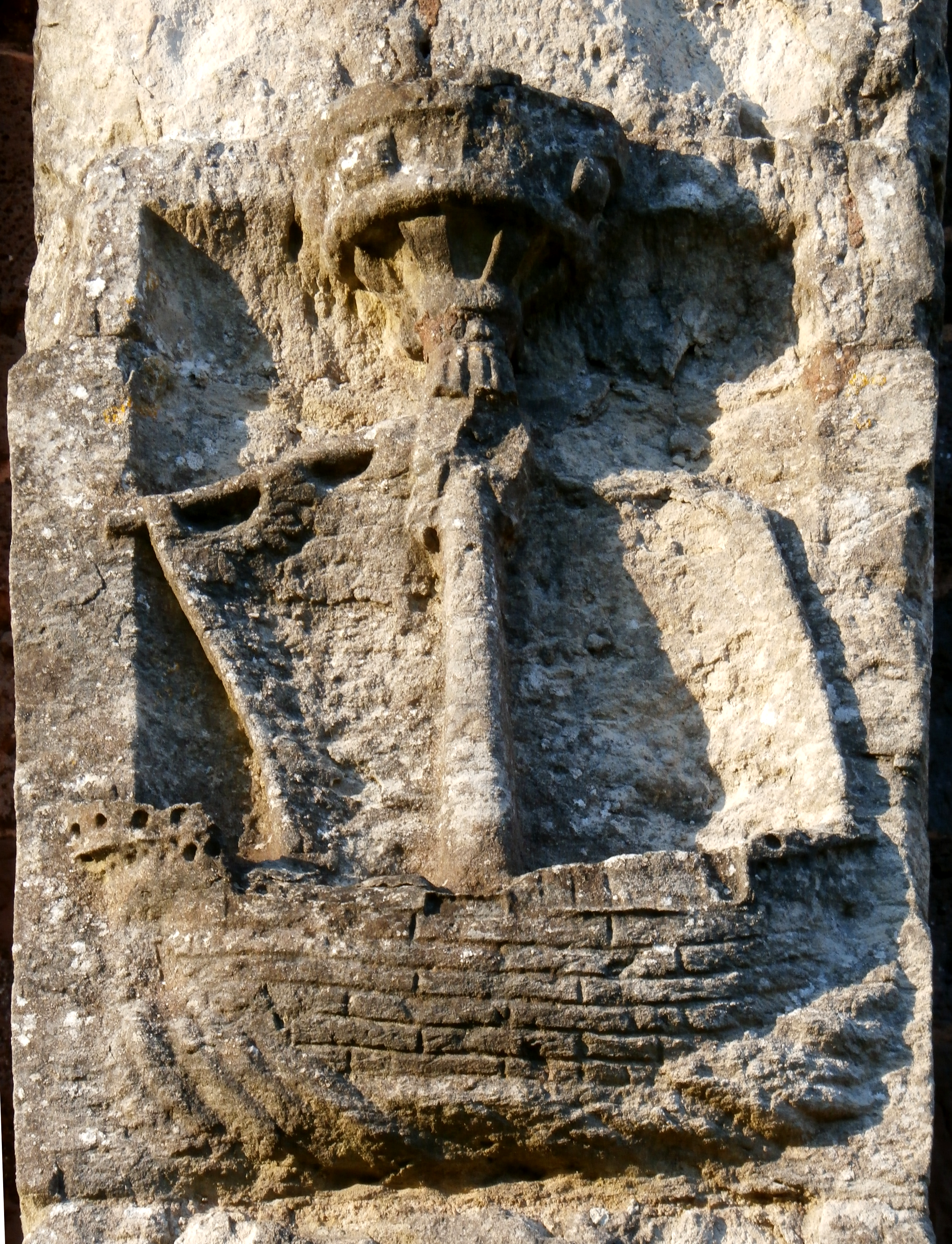 Relief sculpture of a ship on the exterior of the "Lane Chapel", south aisle of St Andrew's Church, Cullompton, Devon, built by the cloth merchant John Lane (d.1528). Supposed to have been part of his trading fleet. Several similar sculptures decorate the exterior of the Chapel.